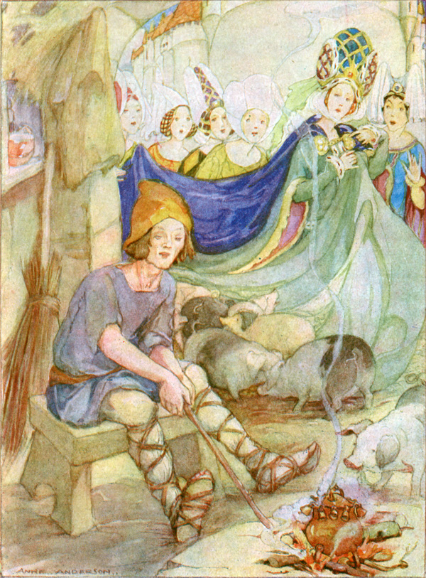 "The Swineherd". He would take nothing less than a hundred kisses from the princess.